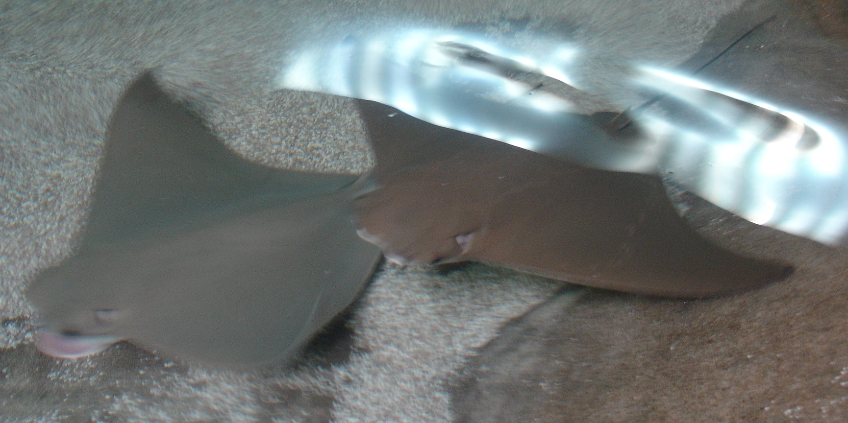 Cownose Ray (Rhinoptera bonasus) in an open top tank at the Albuquerque Aquarium